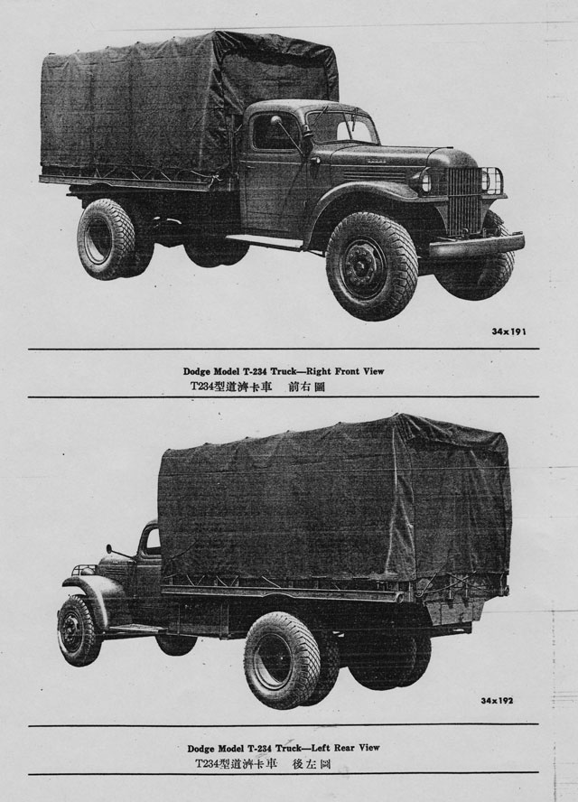 Dodge T-234 "China / Burma Road" Truck — Right front and left rear view photos from manual